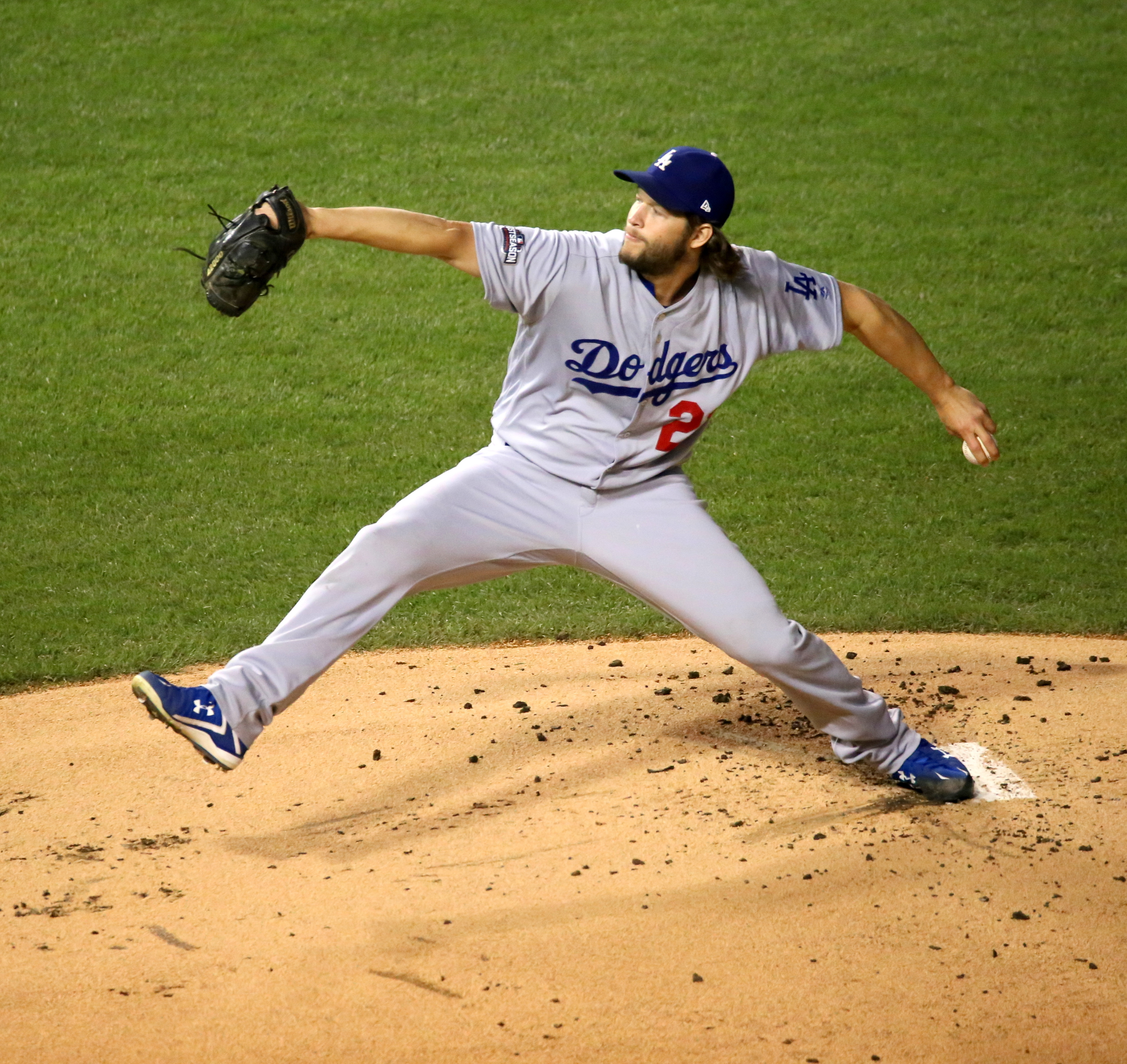 Dodgers starter Clayton Kershaw delivers a pitch during NLCS Game 6.